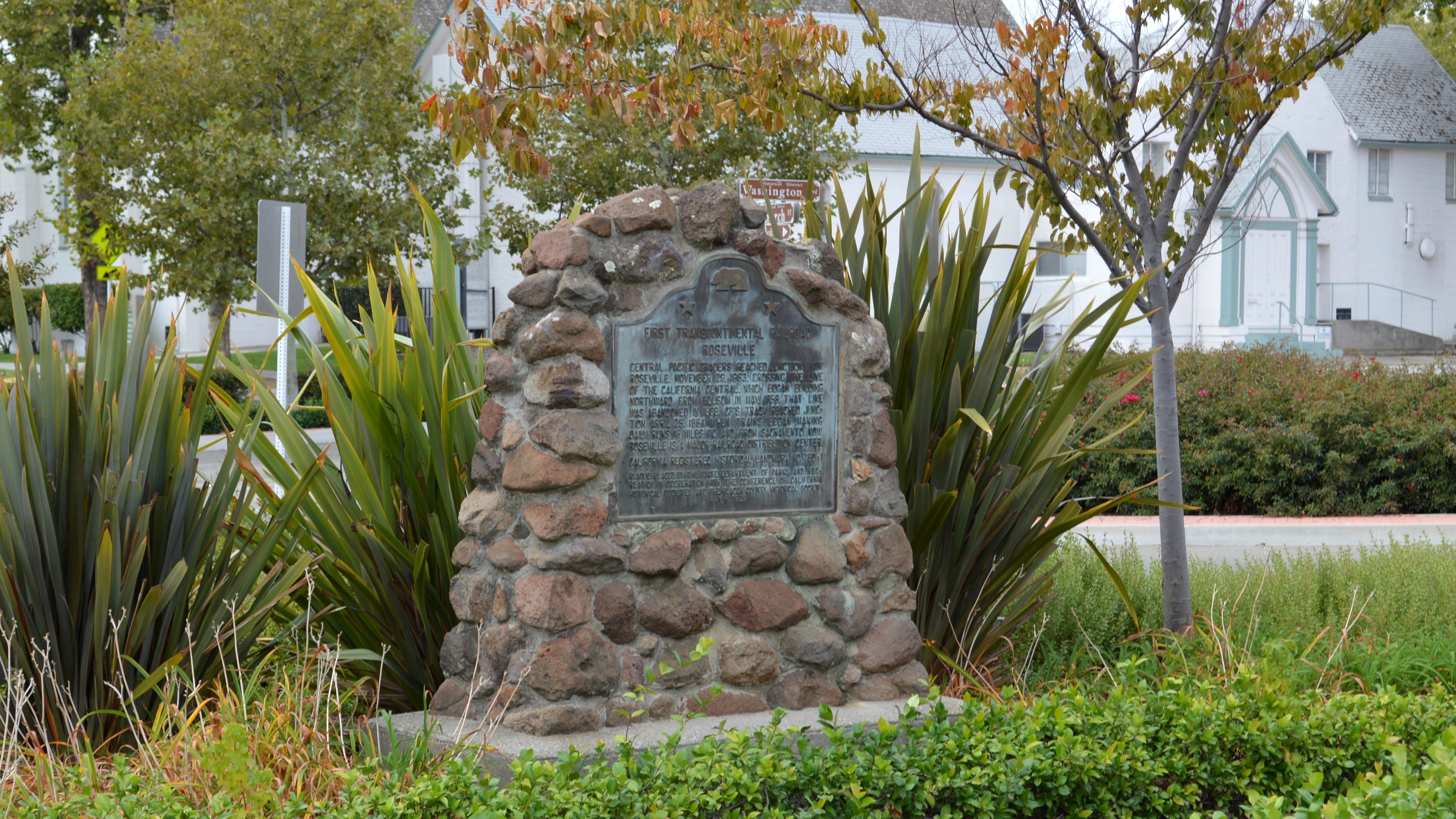 California Historical Landmark 780-1:Transcontinental Railroad in California - Roseville